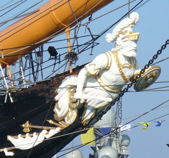 HMS Warrior Figurehead On the ironclad historic ship by The Hard in Portsmouth.